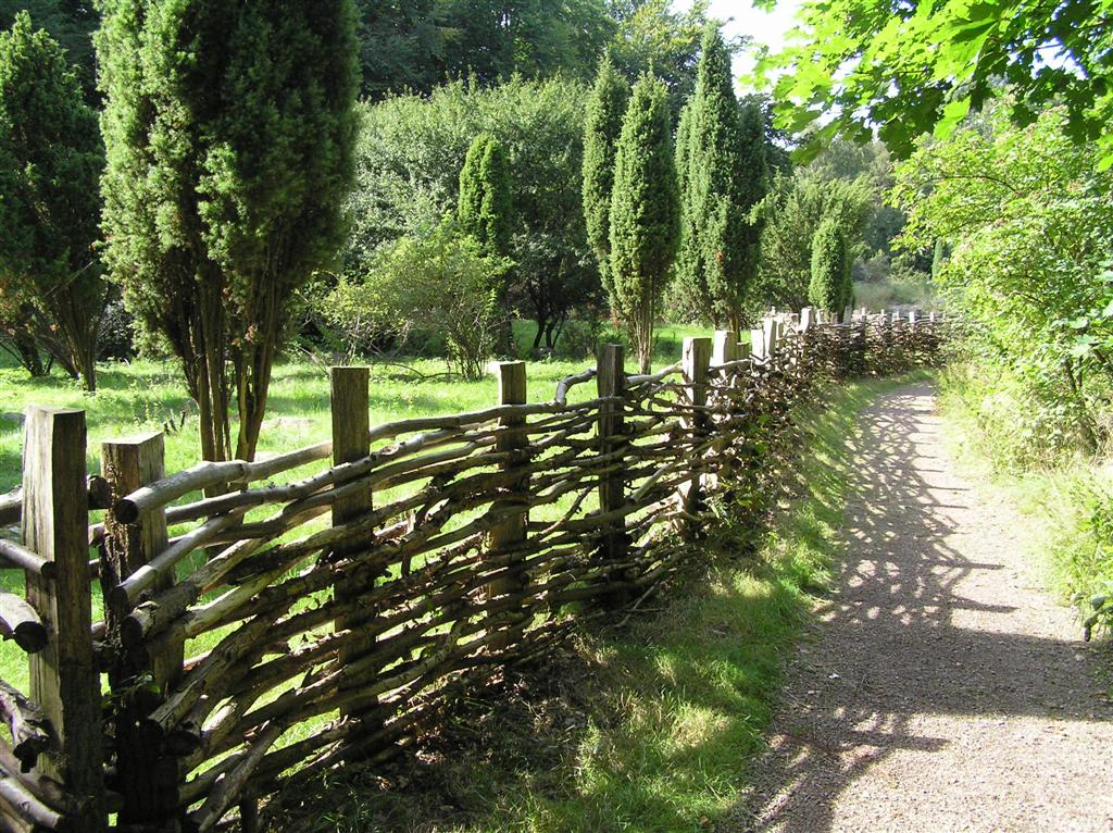 Photo: Bengt Olof ÅRADSSON Fredriksdal 'skansen' in Helsingborg, with Juniperus communis 'Suecica' (a Juniperus cultivar ).